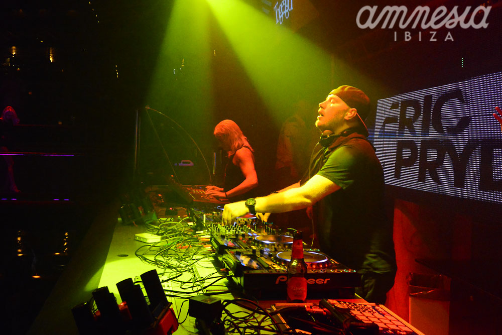 18.09.12 - Together. More pics at